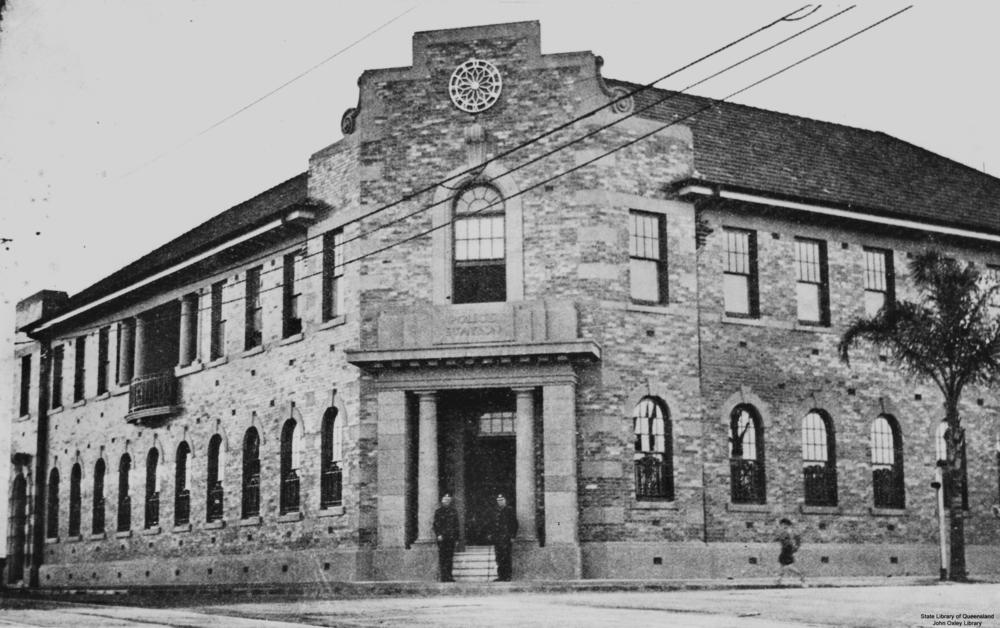 Fortitude Valley Police Station, Brisbane, Queensland, 1936 Fortitude Valley Police Station, Fortitude Valley, Brisbane, Queensland, in 1936. Erected in 1935 on the corner of Brookes and Wickham Streets, Fortitude Valley, the building is made of brick and sandstone. Two policemen stand at the front entrance. Wickham Street lies to the left, Brookes Street to the right.